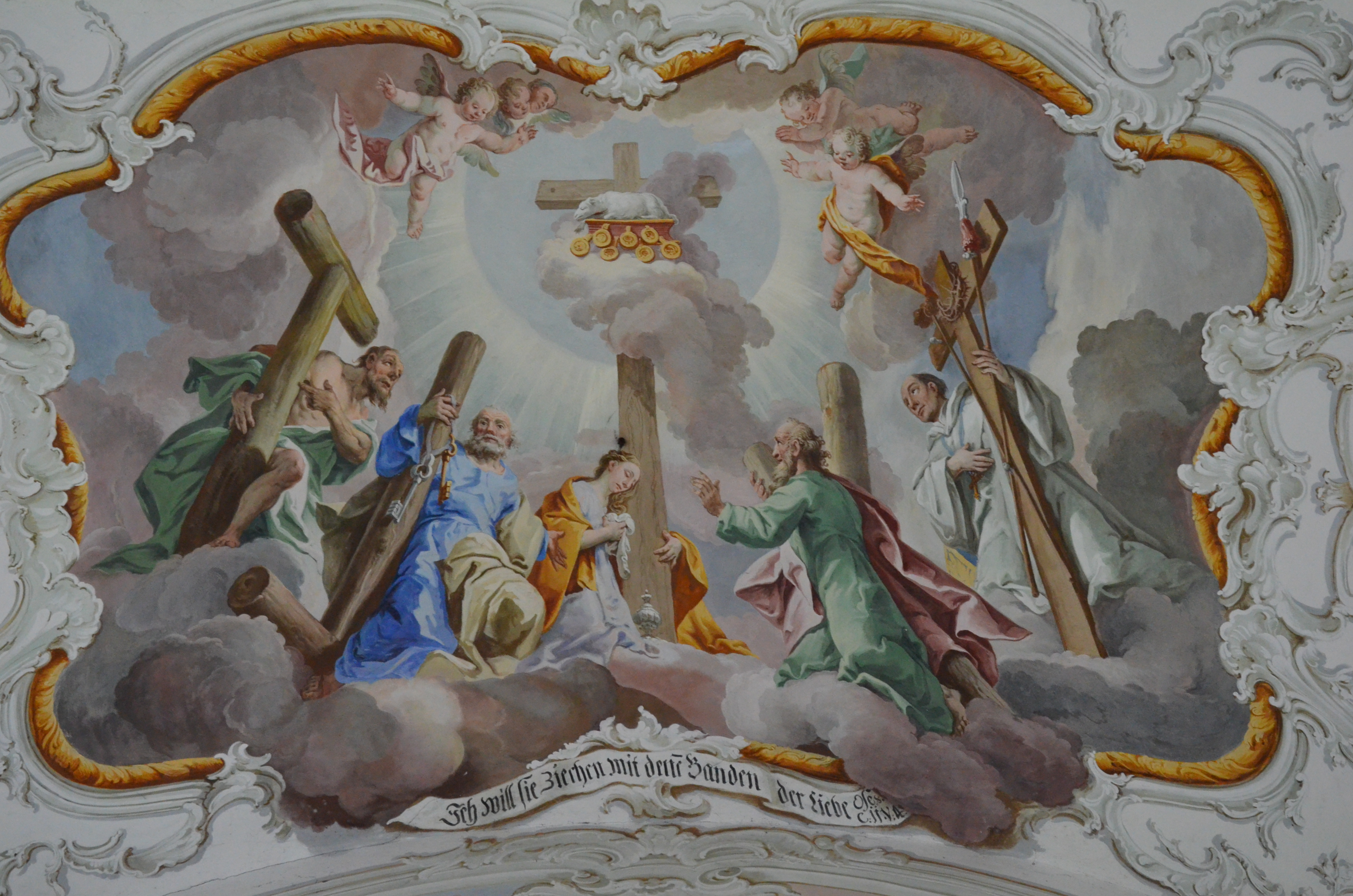 Church Heiligkreuz - Fresko of Ceiling Detail 1